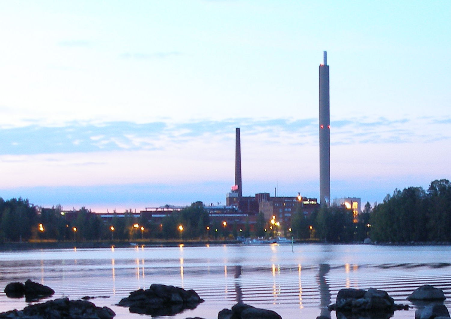 Säteri viscose fibre factory in Valkeakoski, Finland